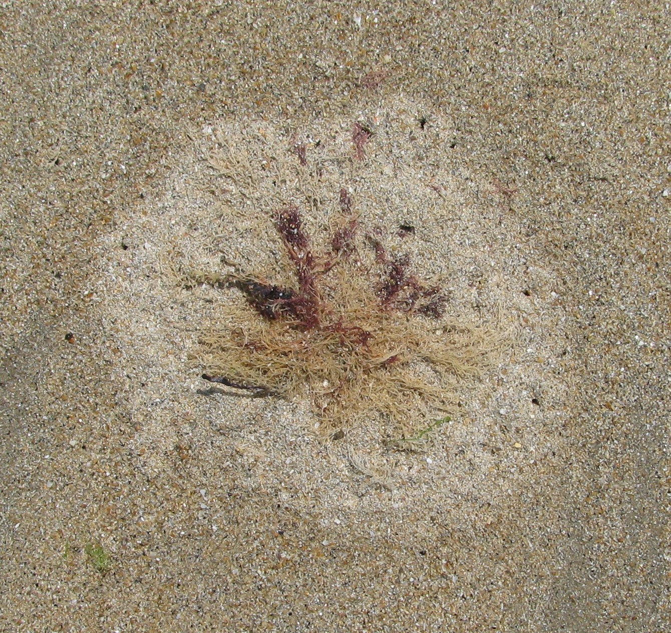 Presence of a group of Talitrus near a stranded tuft of red algae and bryozoa.